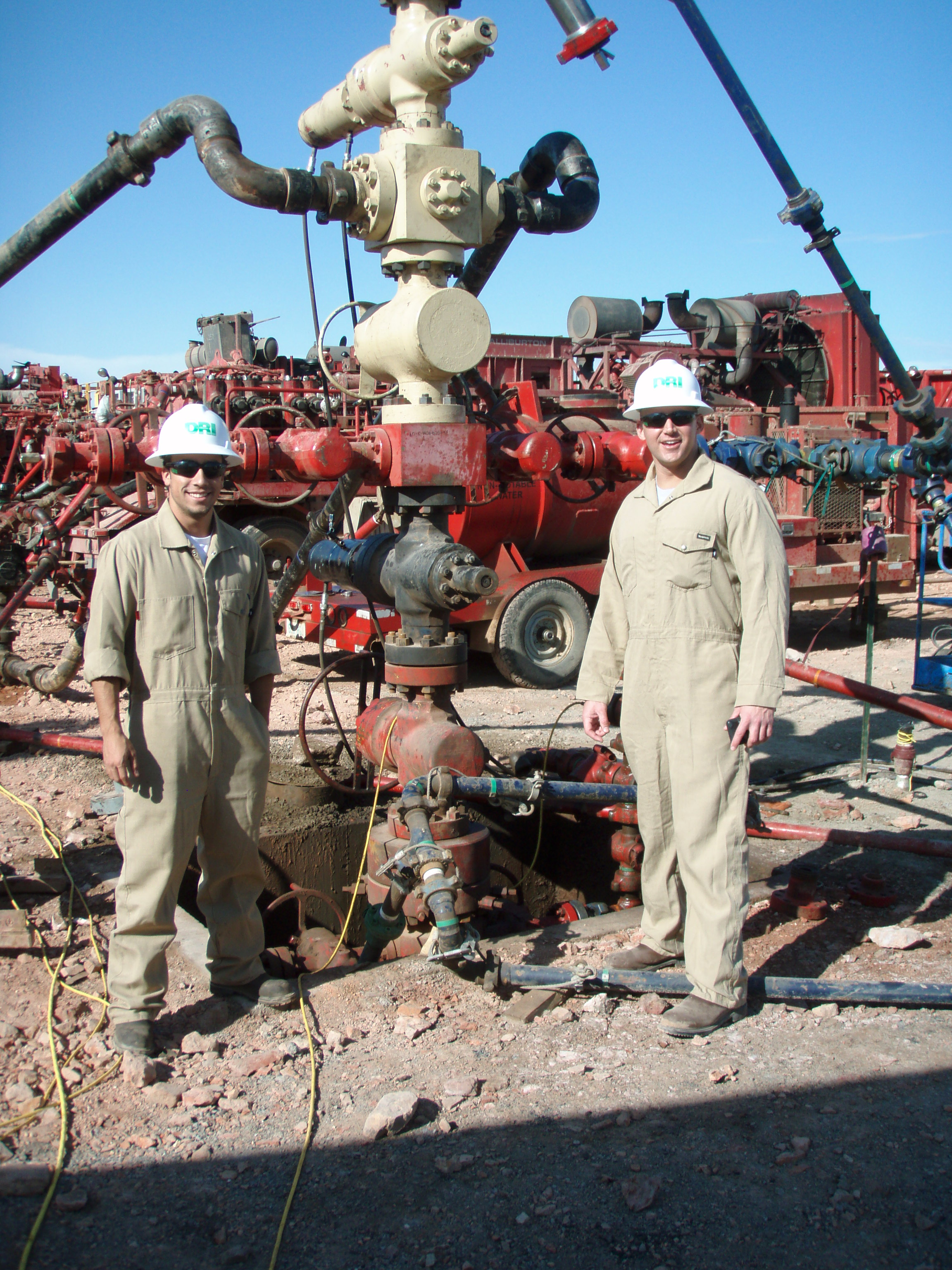 Middle of the fracking process while fracking the Bakken in North Dakota